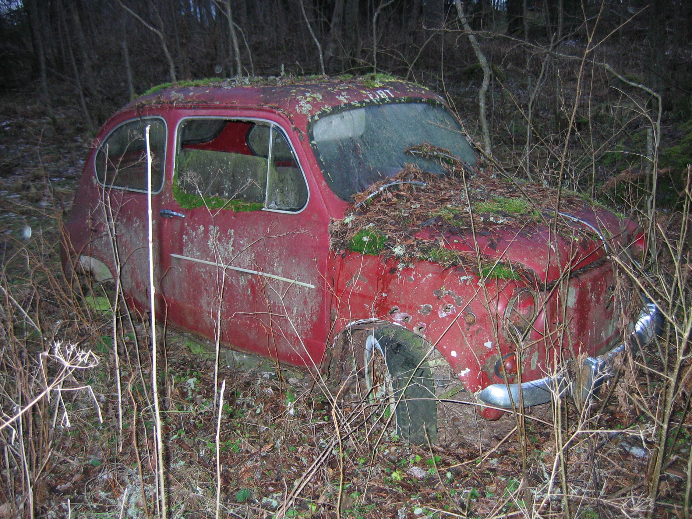 A Fiat 600 left in forest some forty years ago.